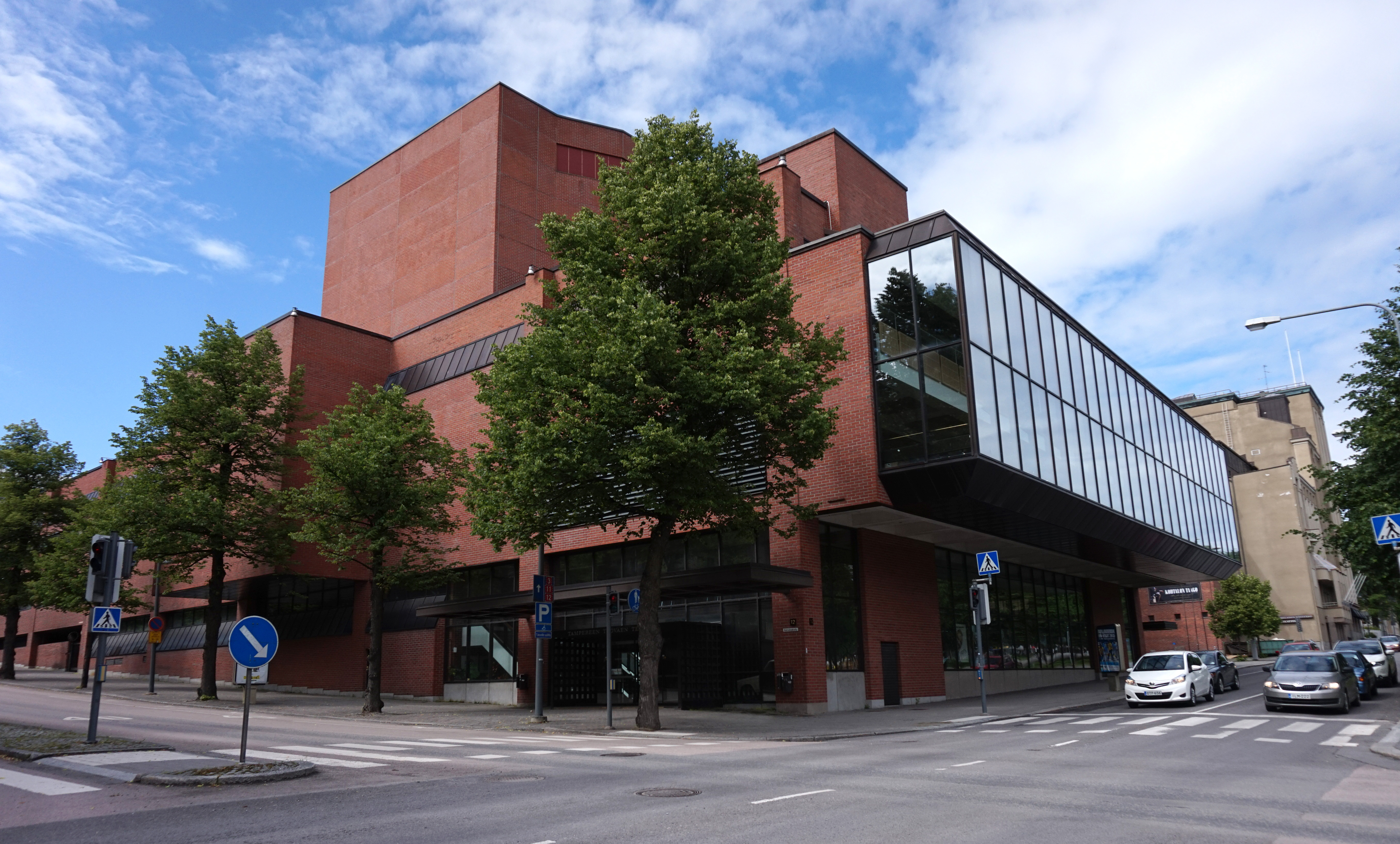 The building Tampereen Työväen Teatteri between the streets Satamakatu and Hämeenpuisto in Tampere.This photograph was taken with a Sony ILCE-5000